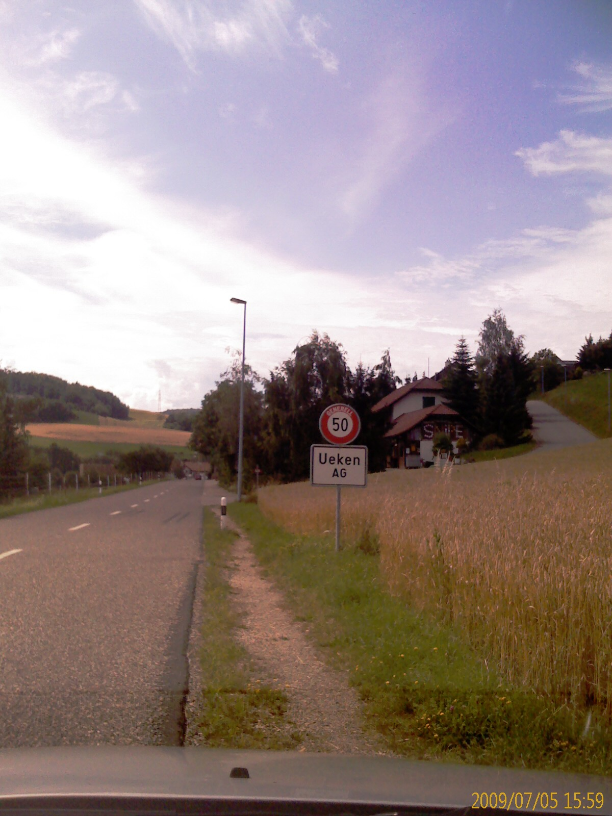 Village entry Ueken, canton of Aargau, SwitzerlandEsperanto: Vilaĝeniro de Ueken, Kantono Argovio, Svislando